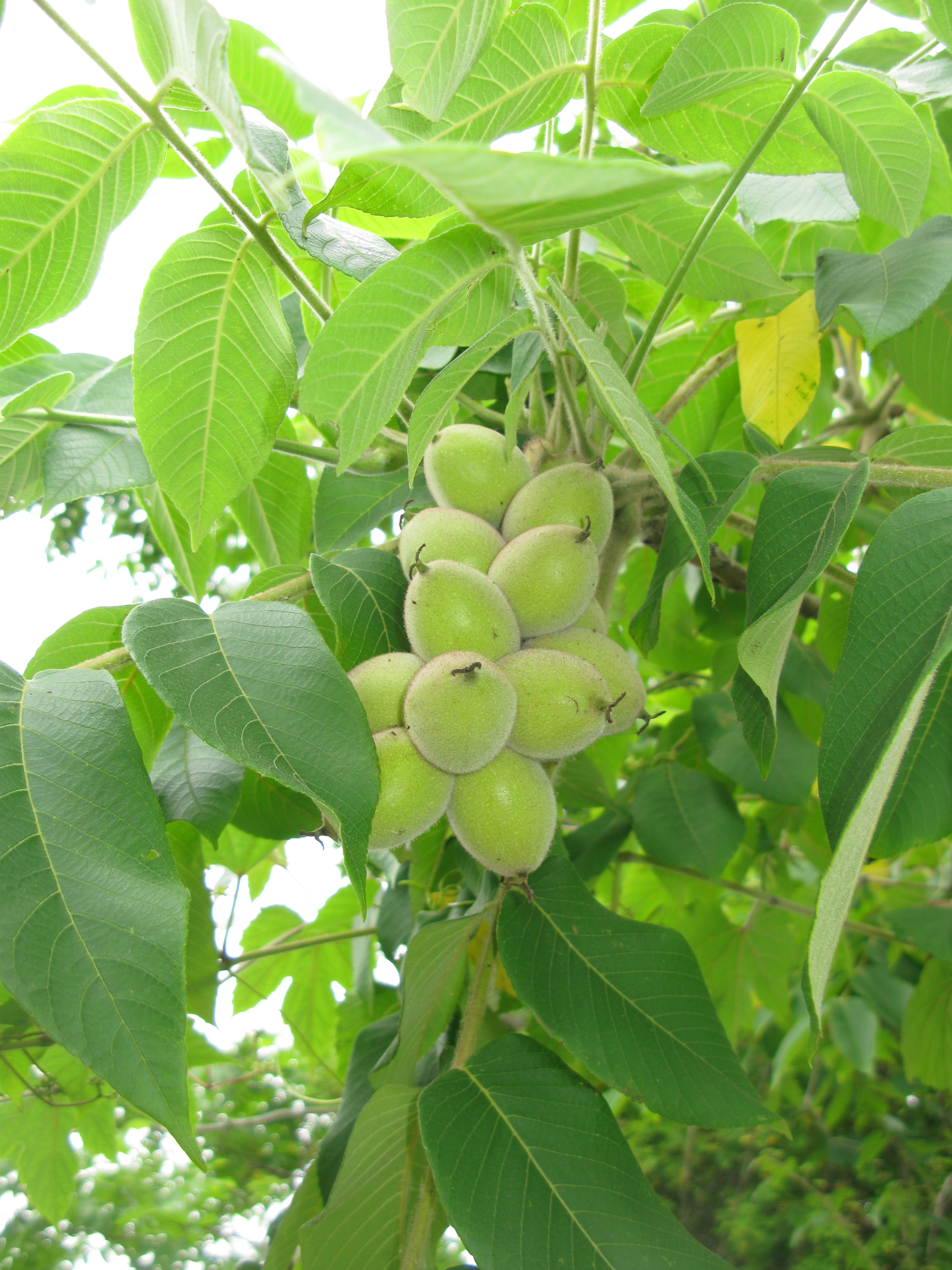 Juglans mandshurica var. sieboldiana,Fruits,Aizu area,Fukushima pref.,Japan